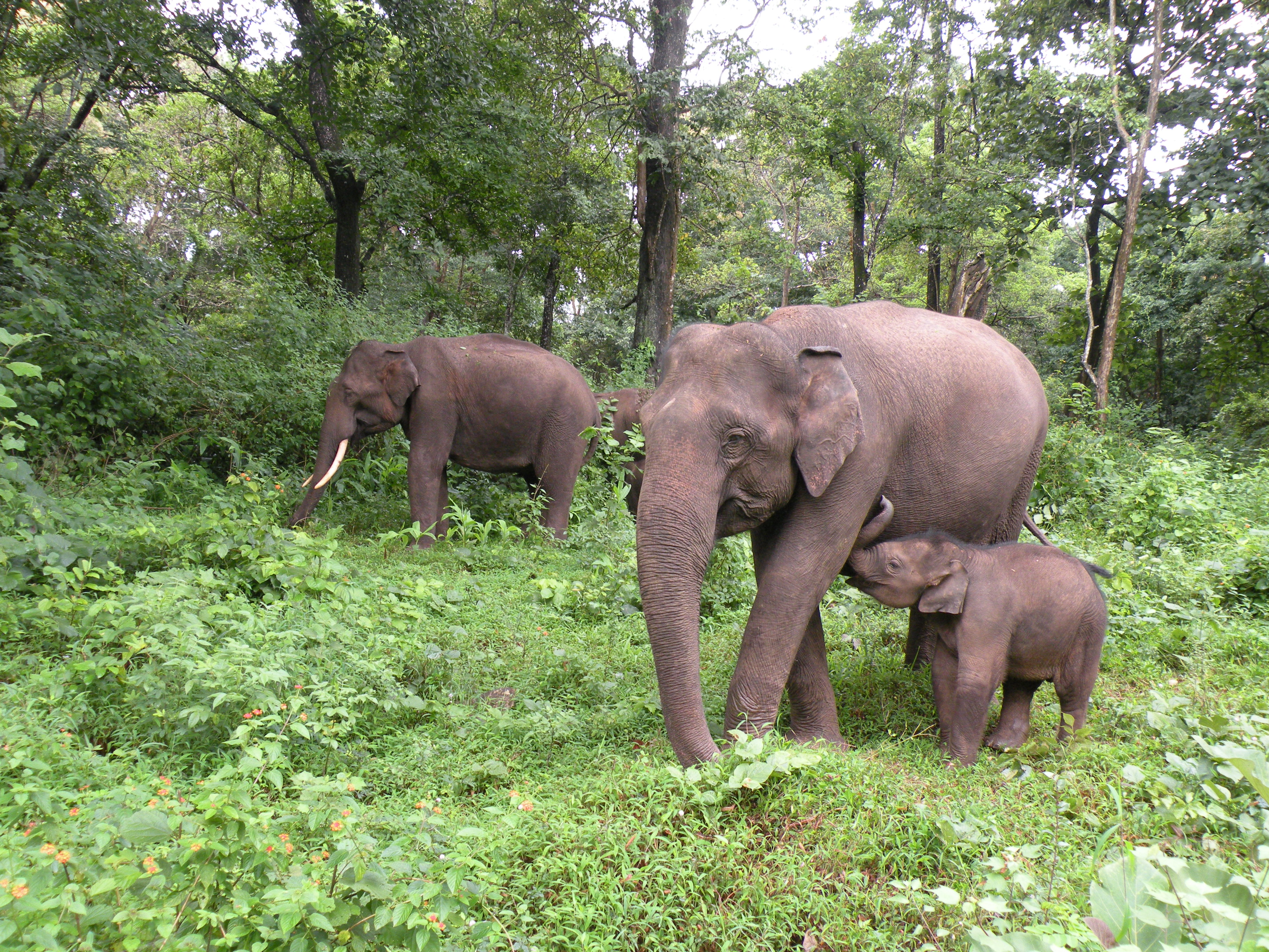 A family group of elephants in Mudumalai Tiger Reserve, India